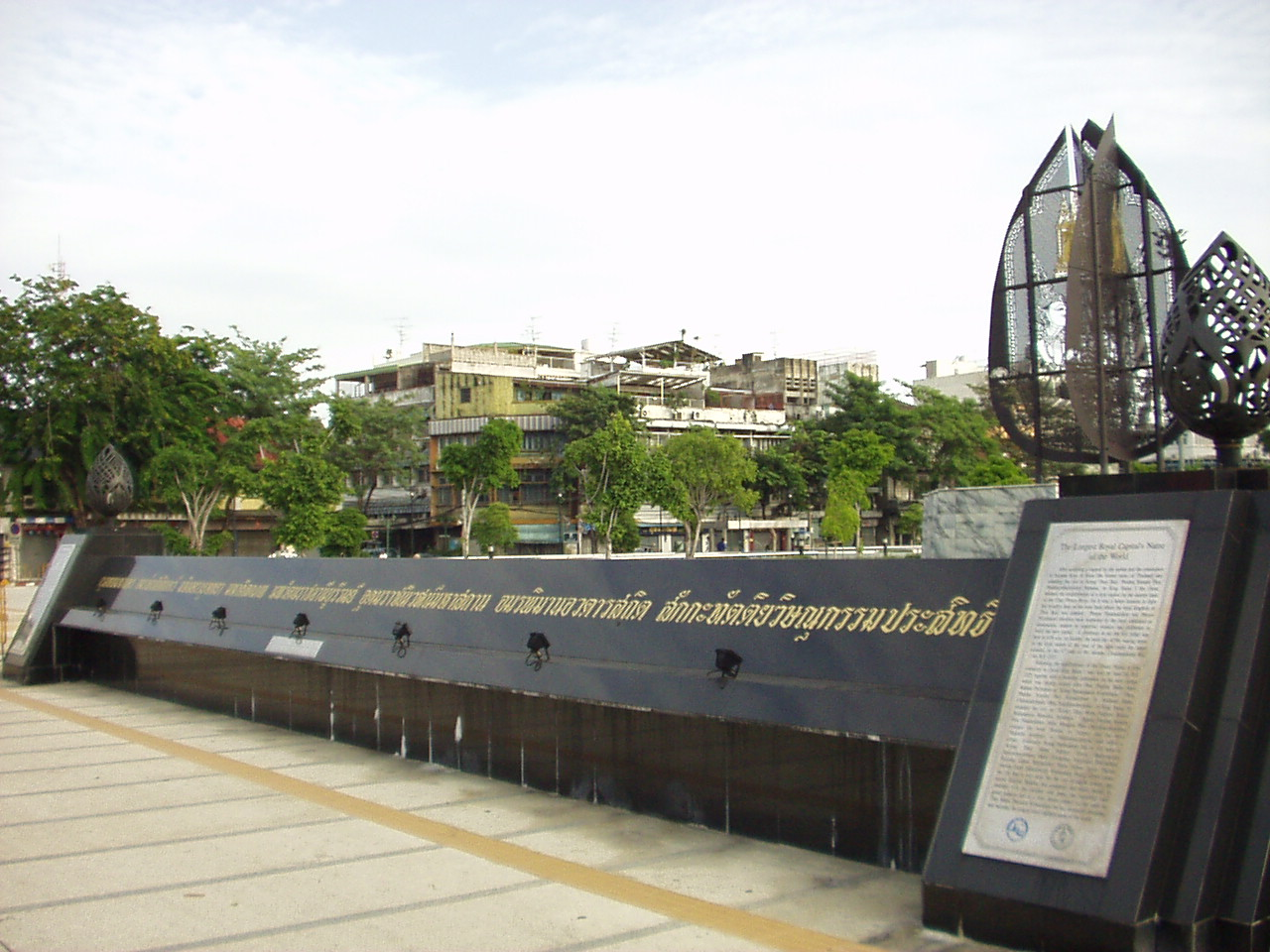 Full name of Bangkok on monument near City Hall (in the middle there is plaque the name written in Braille)